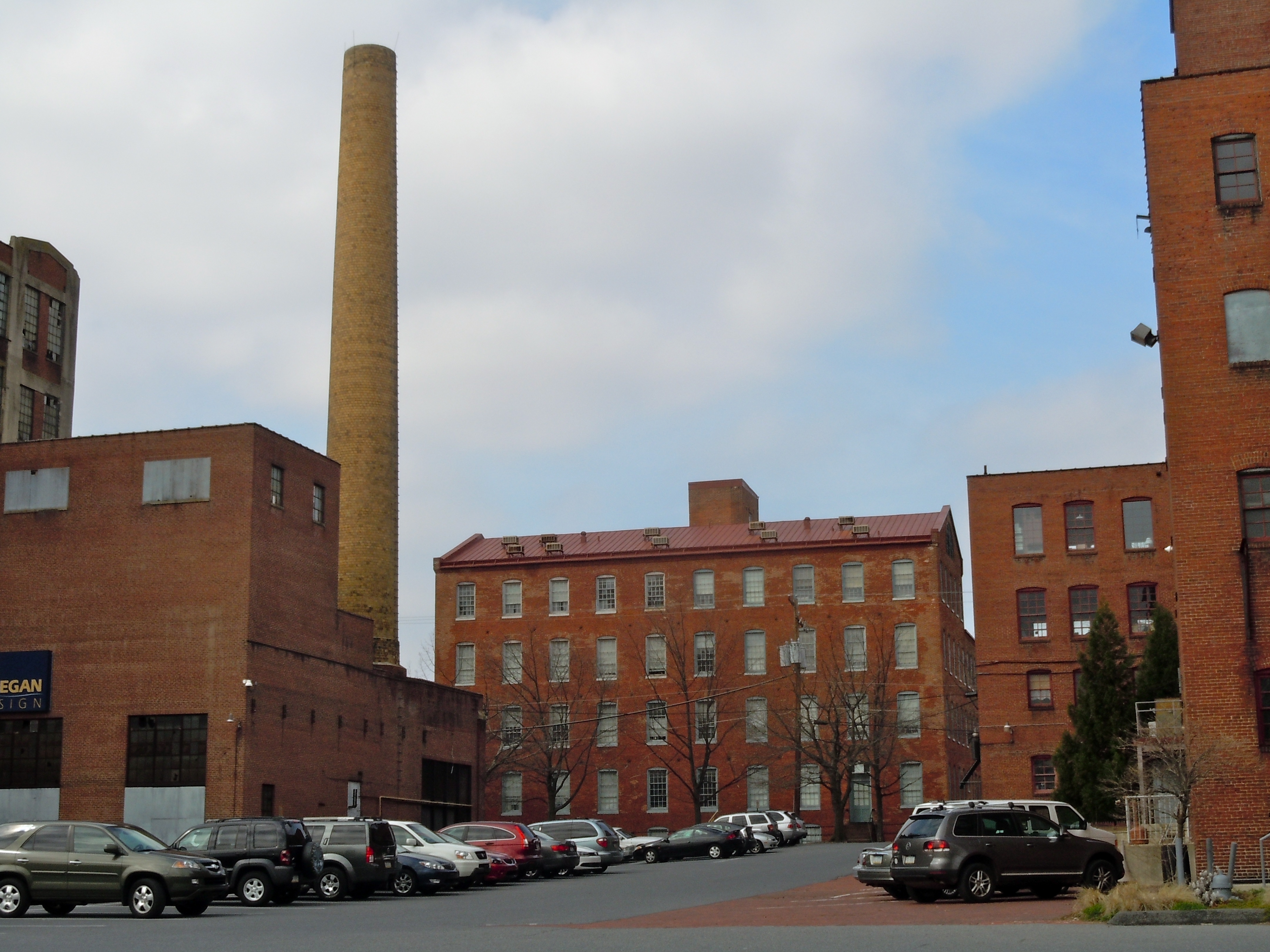 Reading Hardware Company Butt Works on the NRHP since November 20, 1979. At 537 Willow Street, Reading, Berks County, Pennsylvania